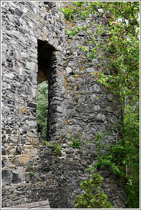 Schloss Beilstein (Westerwald), old castle wall, July 2018.